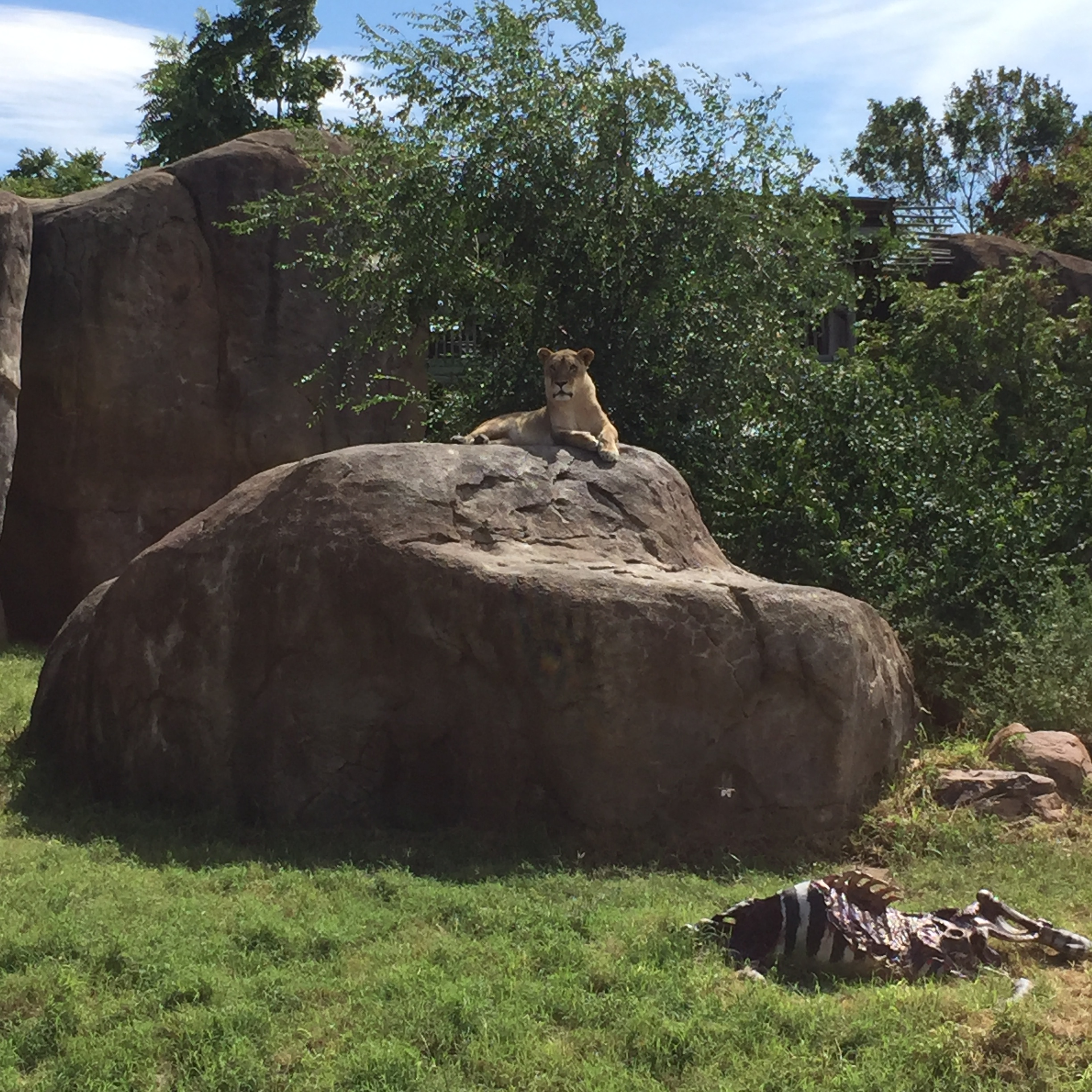 Lioness with (imitated) zebra kill, Sedgwick County Zoo